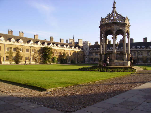 The Great Court at Trinity College Scene of the Great Court Run when an attempt is made to run the 341 metres around the court in the 43 seconds that it takes to strike 12 o'clock. By tradition, students attempt to complete the circuit on the day of the Matriculation Dinner. The feat was recreated in the film 'Chariots of Fire' although filming actually took place at Eton College.